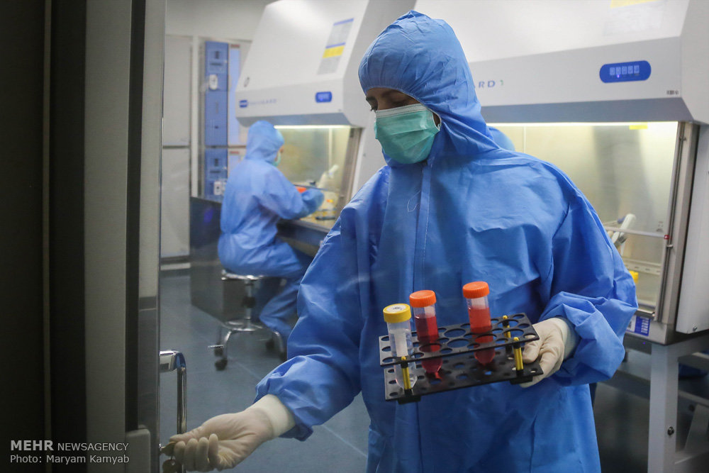 The opening ceremony of the first human cell production plant in West Asia was held May 25, 1397, with the presence of Ishaq Jahangiri, First Vice President and Seyyed Hassan Ghazizadeh Hashemi, at the Cell Tech Pharmed drug manufacturing plant.